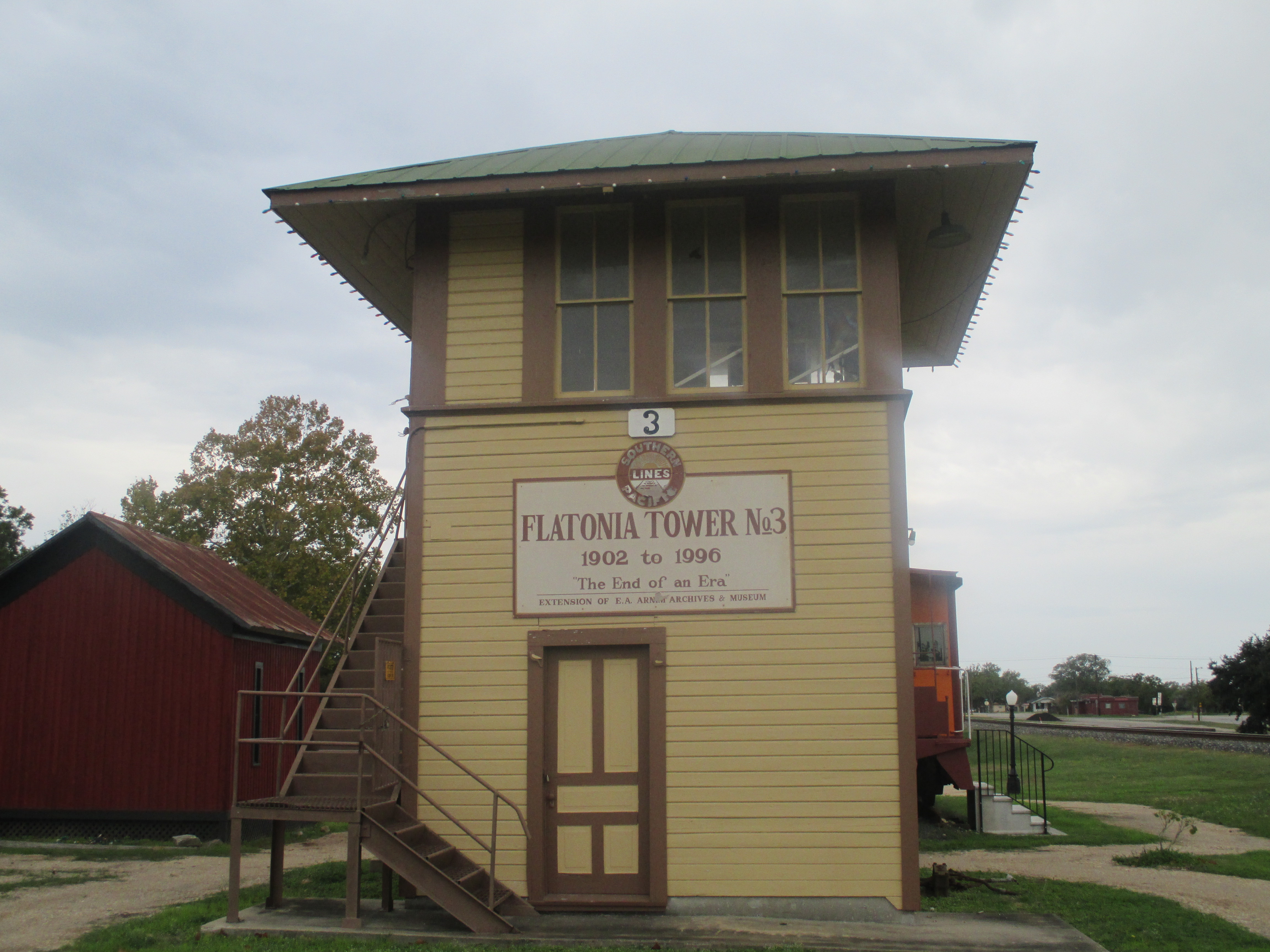 Flatonia Tower No. 3, a former railroad tower at 100 Block of S. Penn St, B in Flatonia, Texas